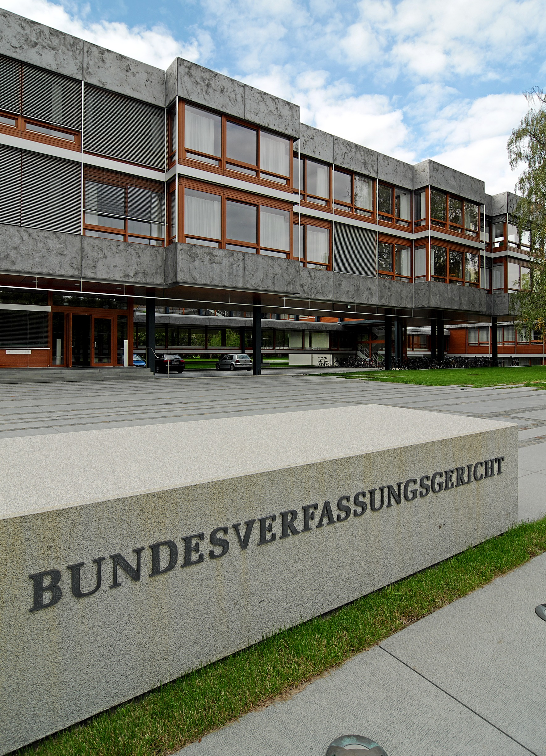 The Federal Constitutional Court of Germany in Karlsruhe, entry to the judges' building.